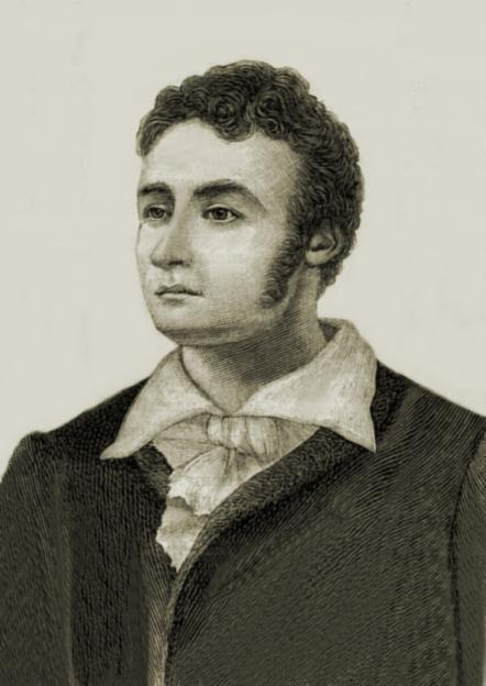 French poet and playwright Alexandre Guiraud (1788-1847)